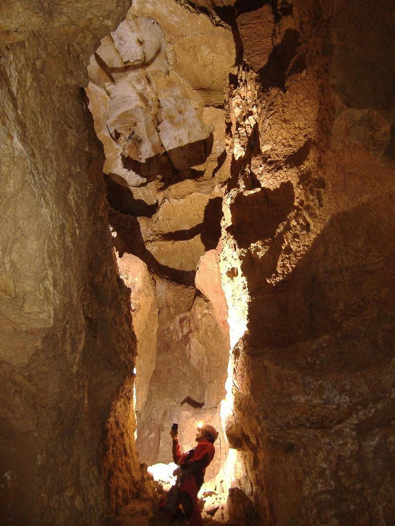 The Szent Özséb-caves second big hall, the Eső-terem